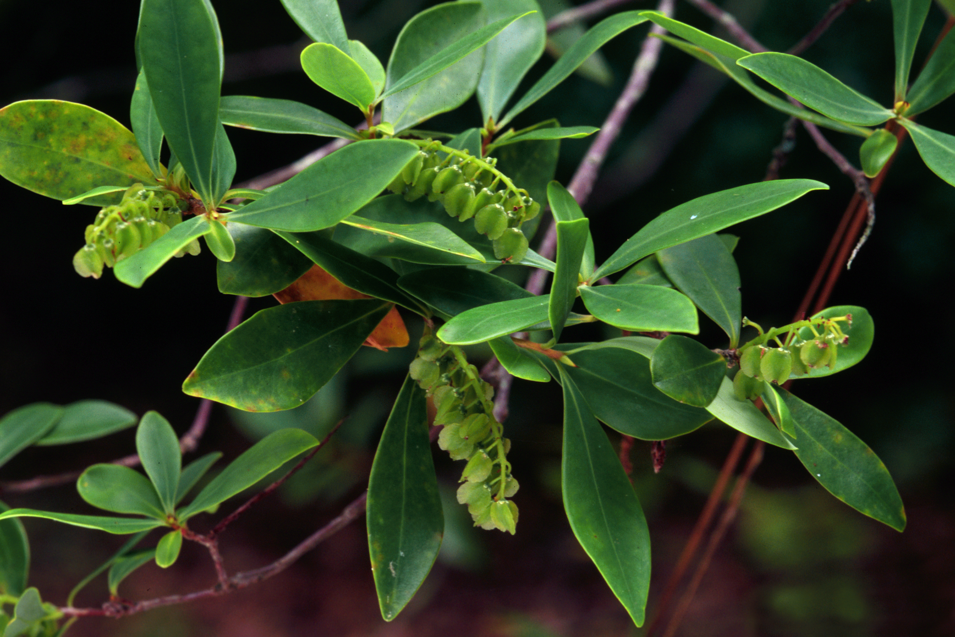 Cliftonia monophylla, image taken in june